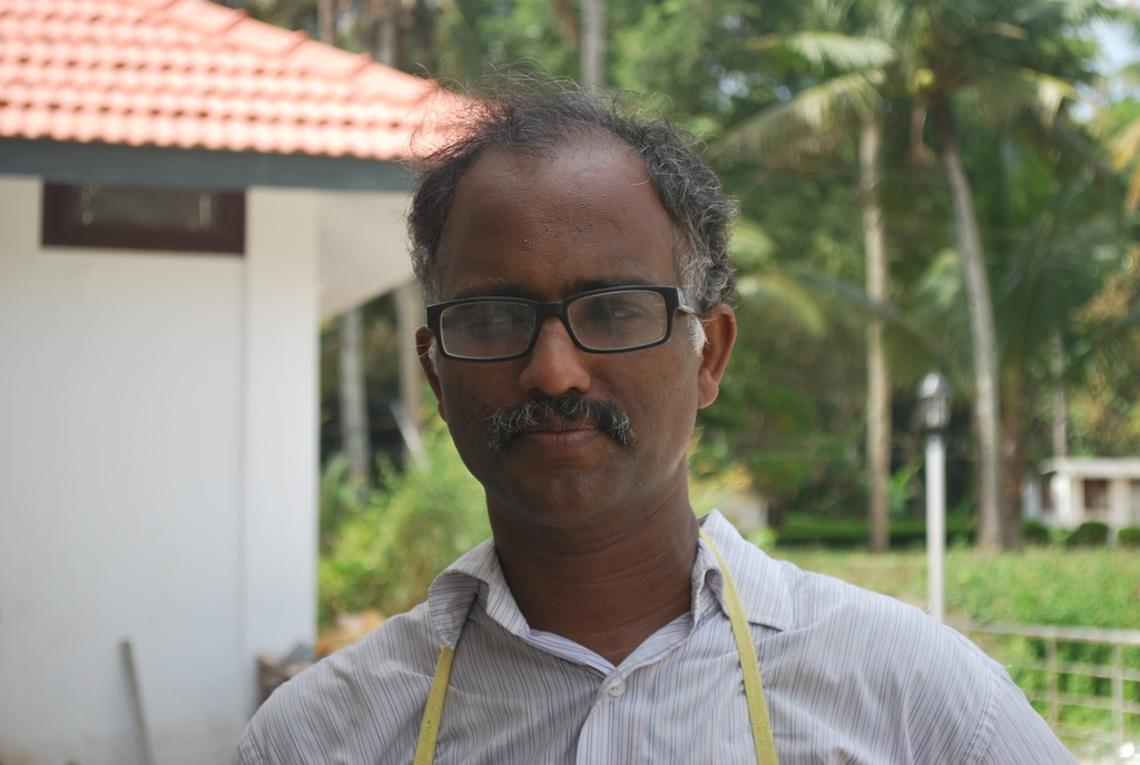 Sculptor V.Satheesan at Lalita kala academys Sculptor camp, Kayamkulam Dec 2014